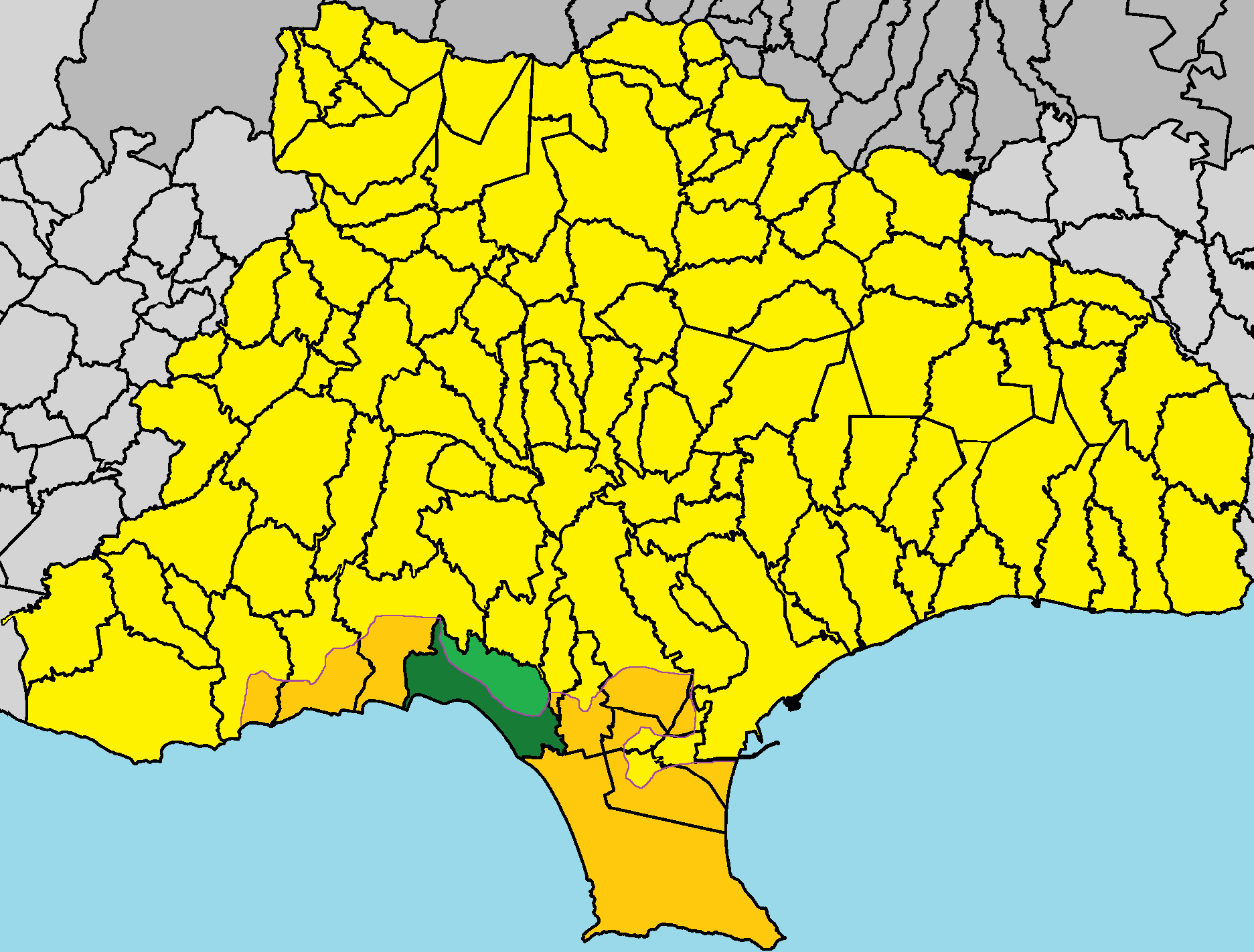 Episkopi, Limassol in Limassol District.